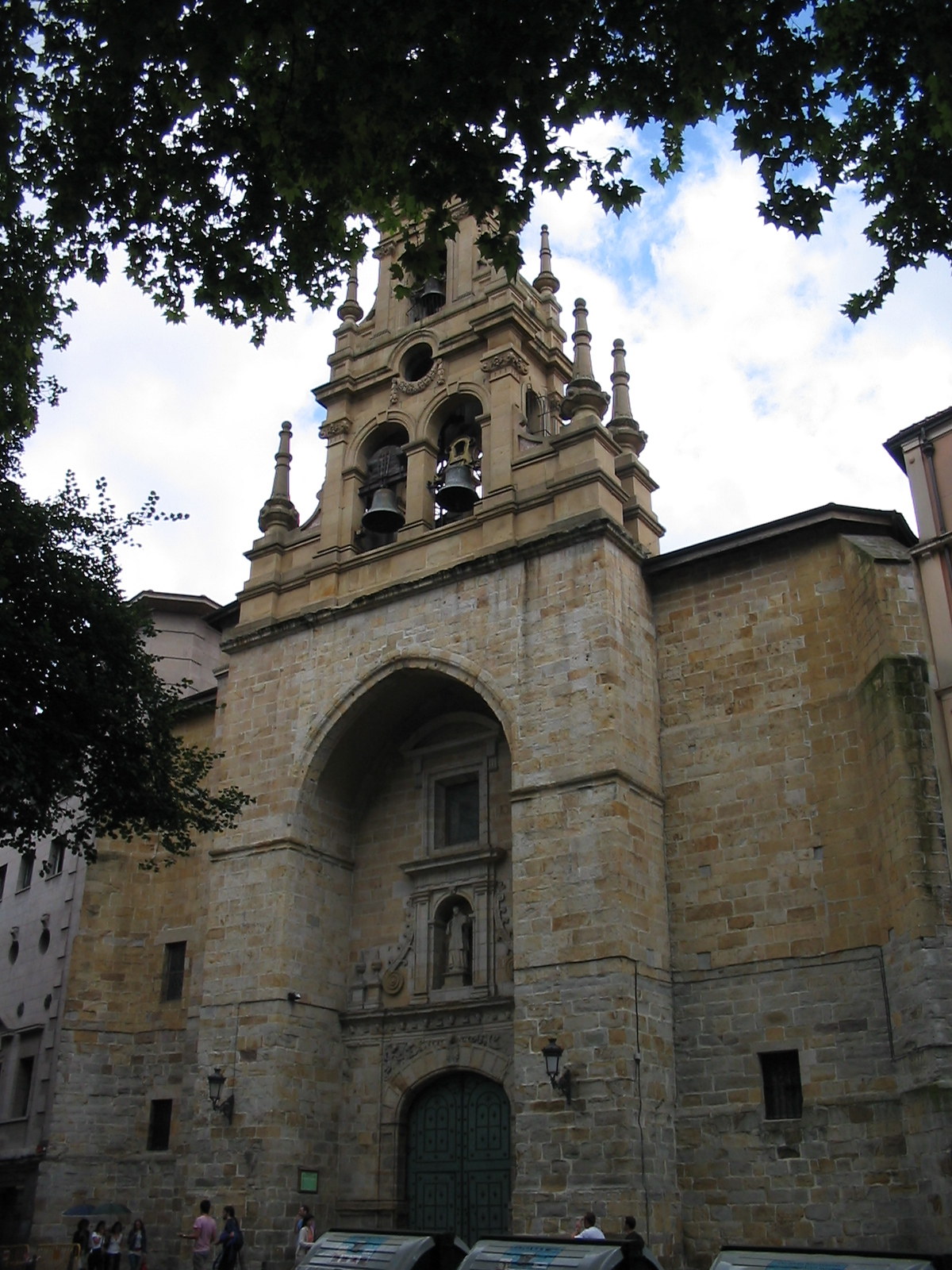 Saint Vincent martyr's church in Abando, Bilbao, Spain